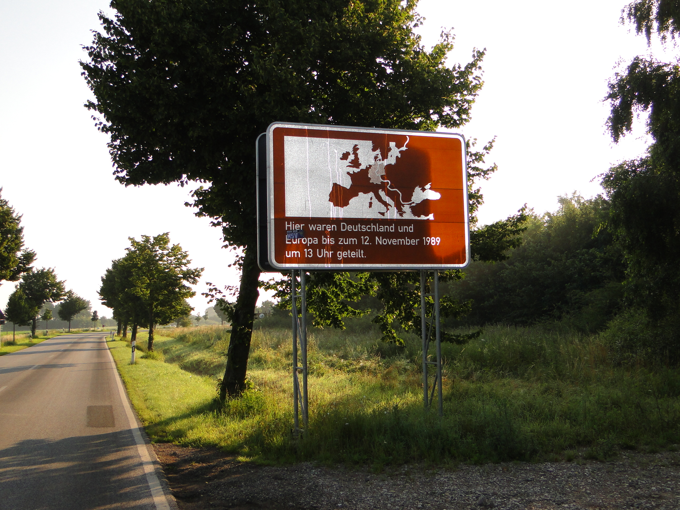 Former inner german border between the Dechow in Mecklenburg-Vorpommern and Mustin in Schleswig-Holstein, part of nature reserve Lankower See